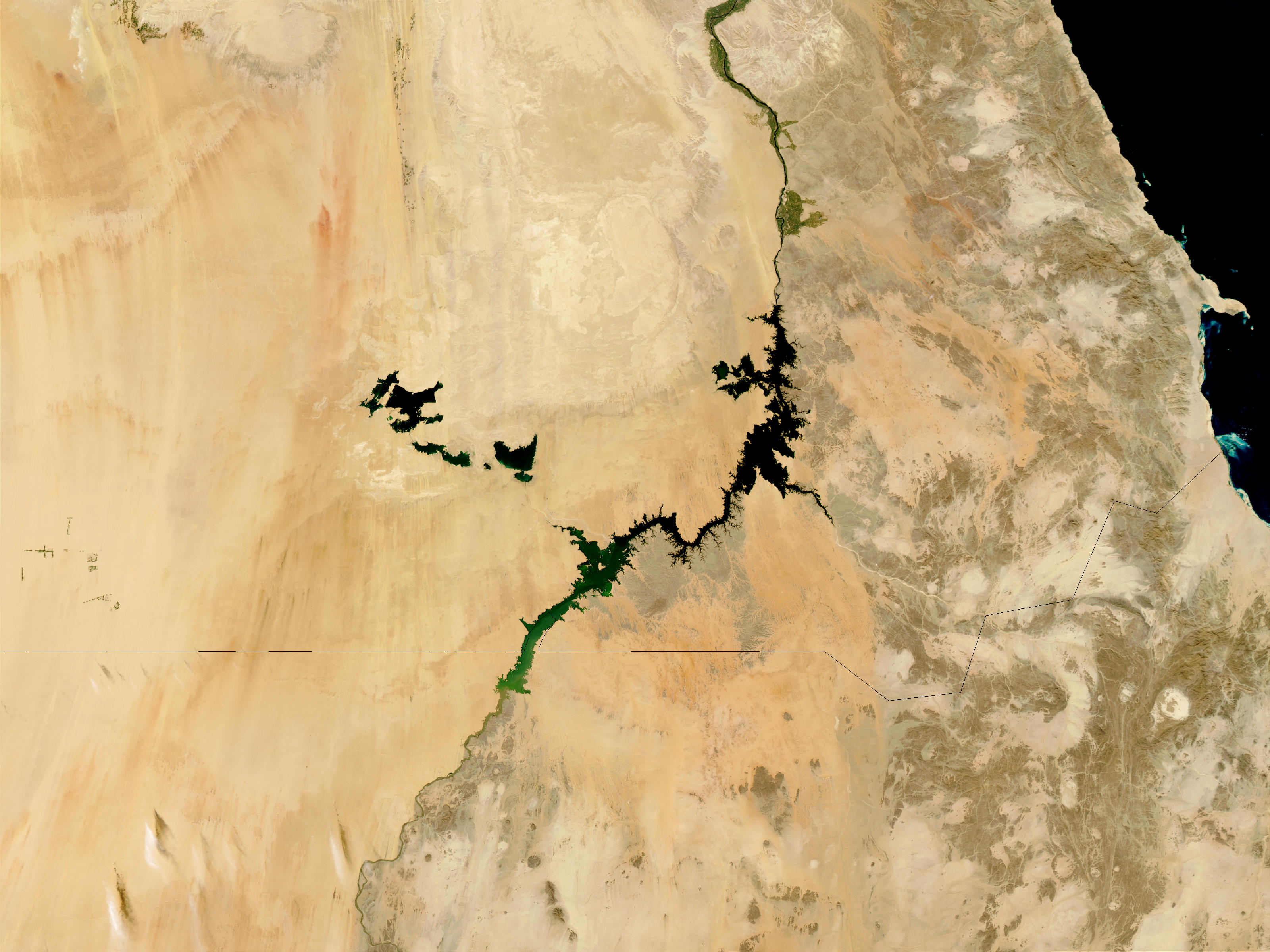 Though vegetation is sparse in the deserts surrounding the Nile River, it is not altogether absent, as these true- and false-color Aqua MODIS images from January 26, 2003, attest. In the true-color image, olive-green colored vegetation is visible along the lower Egyptian Nile (top right), north of Lake Nasser. What could be microscopic marine life, such as algae, is also visible in the southern waters of Lake Nasser, right along the Egypt-northern Sudan border. But the false-color image reveals patches of green vegetation far out into the Western Desert (upper left corner), the Eastern Desert (upper right corner), and the Nubian Desert (lower right). In the false-color image, water appears black, vegetation-free lands appear as a range of pale-salmons to vibrant orange-reds, and vegetated lands appear as a range of greens.